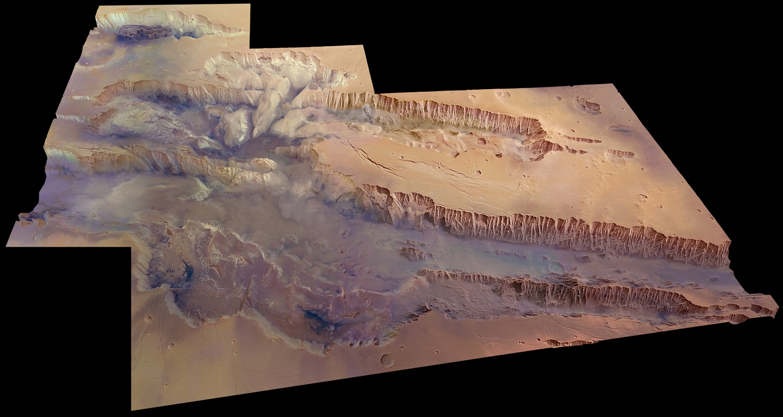 Valles Marineris, seen at an angle of 45 degrees to the surface in near-true colour and with four times vertical exaggeration. The image covers an area of 630 000 sq km with a ground resolution of 100 m per pixel. The digital terrain model was created from 20 individual HRSC orbits, and the colour data were generated from 12 orbit swaths. The largest portion of the canyon, which spans right across the image, is known as Melas Chasma. Candor Chasma is the connecting trough immediately to the north, with the small trough Ophir Chasma beyond. Hebes Chasma can be seen in the far top left of the image. The image was first published in 2009 in the ESA science monograph Mars Express: The Scientific Investigations. For further information and a higher resolution of this image, please click here. Credit: ESA/DLR/FU Berlin (G. Neukum), CC BY-SA 3.0 IGO Copyright Notice: This work is licenced under the Creative Commons Attribution-ShareAlike 3.0 IGO (CC BY-SA 3.0 IGO) licence. The user is allowed to reproduce, distribute, adapt, translate and publicly perform this publication, without explicit permission, provided that the content is accompanied by an acknowledgement that the source is credited as 'ESA/DLR/FU Berlin’, a direct link to the licence text is provided and that it is clearly indicated if changes were made to the original content. Adaptation/translation/derivatives must be distributed under the same licence terms as this publication. To view a copy of this license, please visit